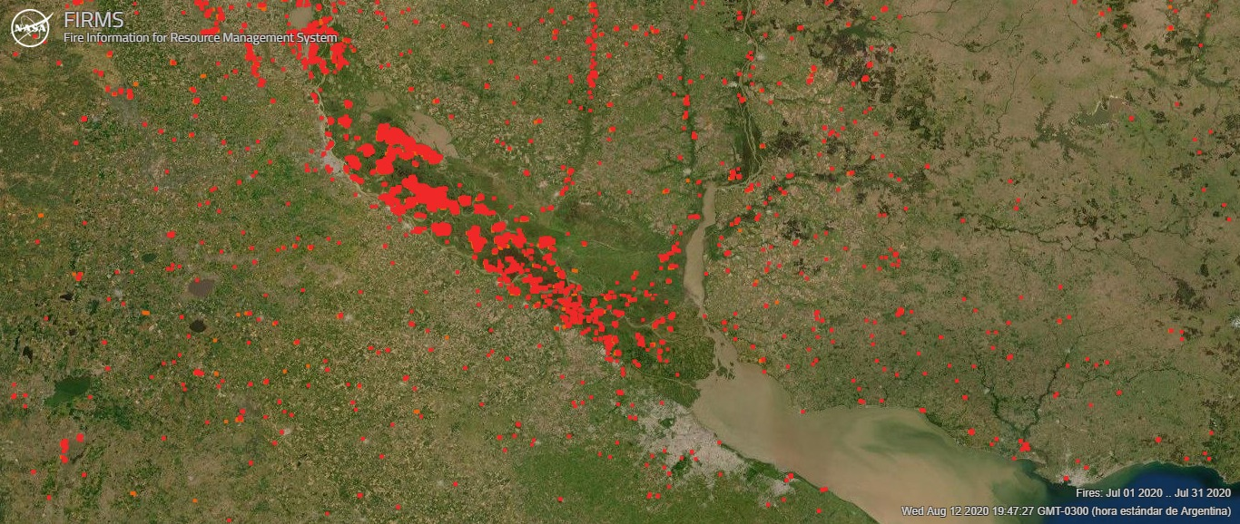 NASA's FIRMS Satellite imagery showing the 2020 Delta del Paraná wildifres in Argentina registered in July 2020